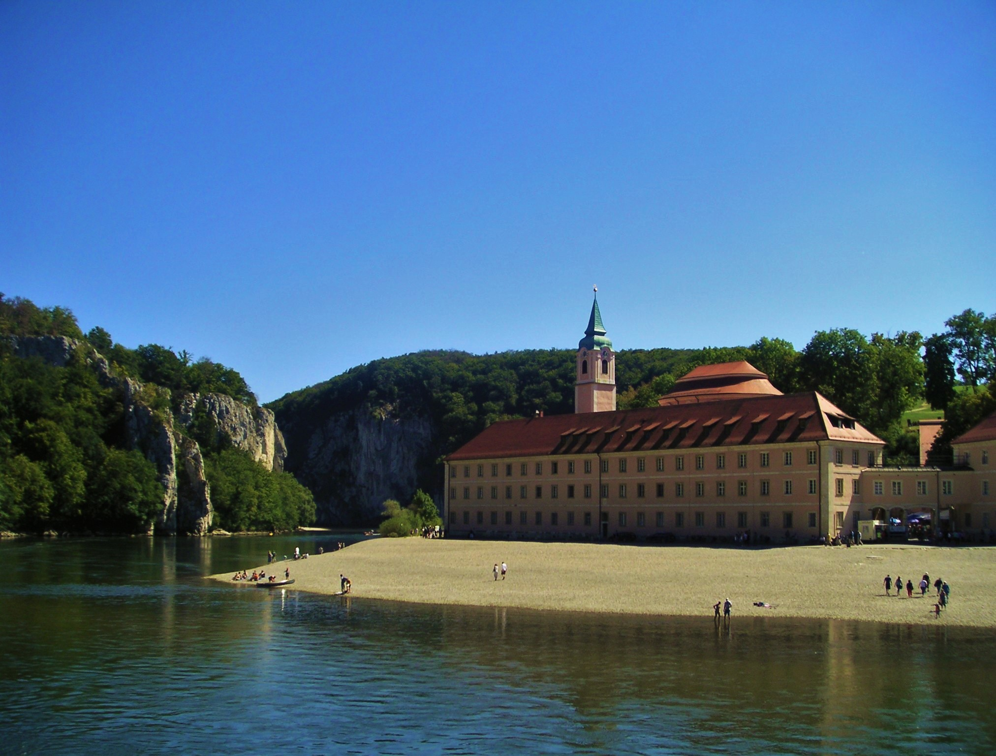 View of Weltenburg Abbey, on the DanubeThis is a photograph of an architectural monument.